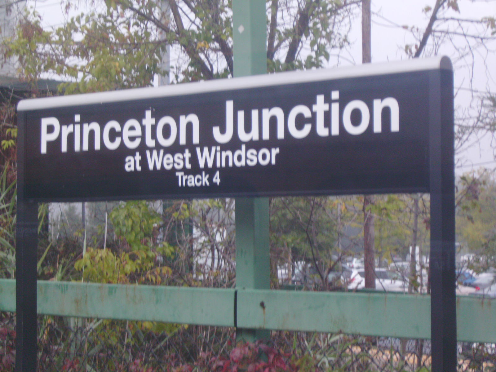 A sign at the Princeton Junction (at West Windsor) station denoting the long name.